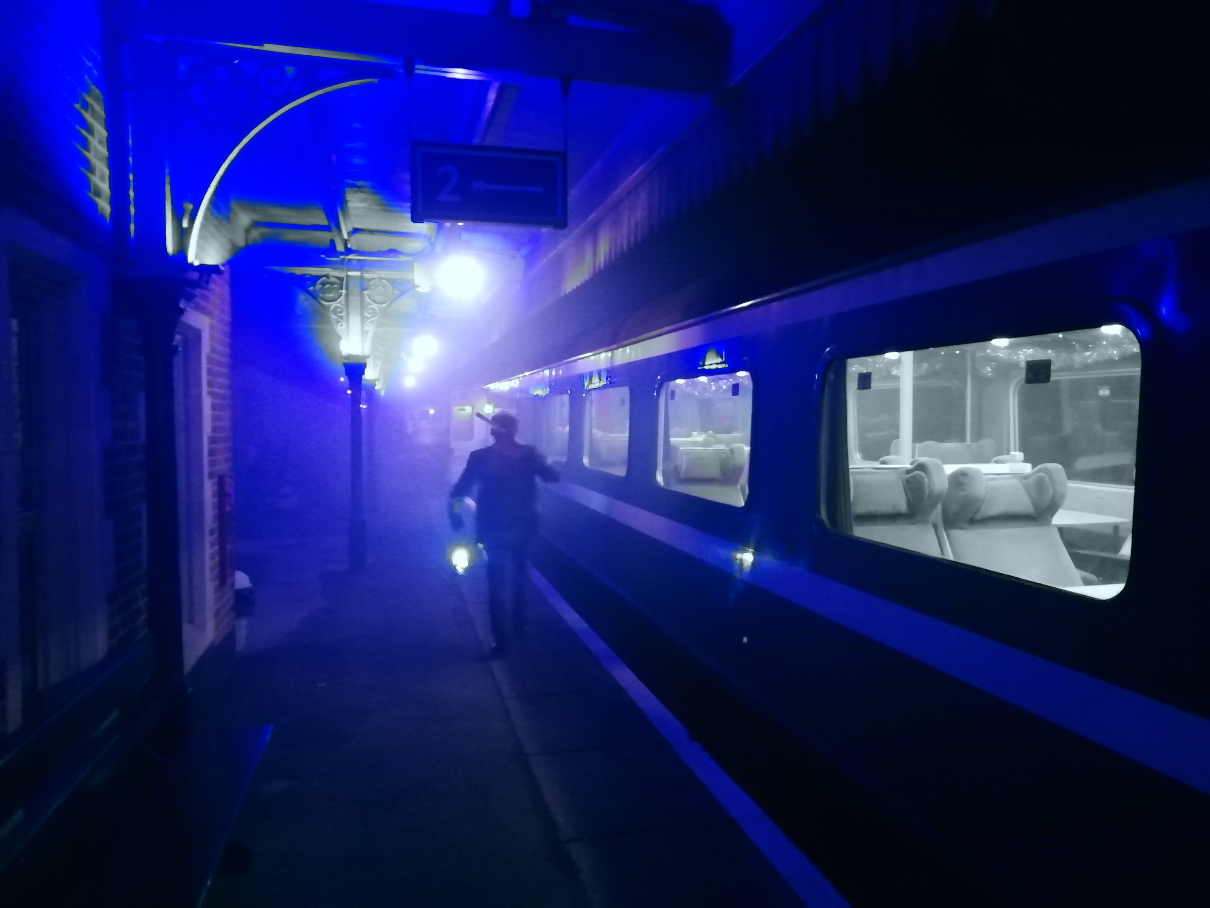 A Polar Express train is prepared for the arrival of passengers at Dereham station on the Mid-Norfolk Railway. Steam and lighting effects are used to recreate the atmosphere from the film.